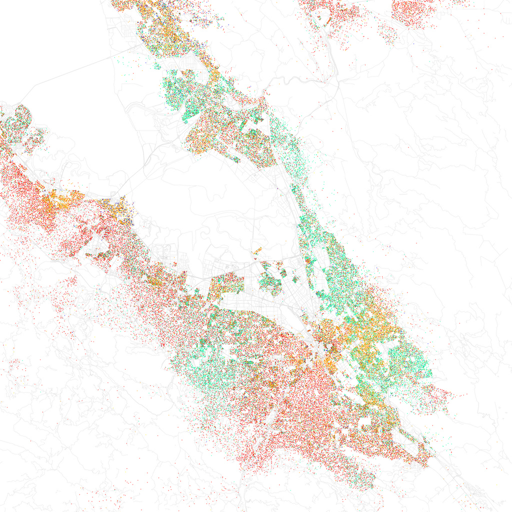 Maps of racial and ethnic divisions in US cities, inspired by Bill Rankin's map of Chicago, updated for Census 2010. Red is White, Blue is Black, Green is Asian, Orange is Hispanic, Yellow is Other, and each dot is 25 residents. Data from Census 2010. Base map © OpenStreetMap, CC-BY-SA